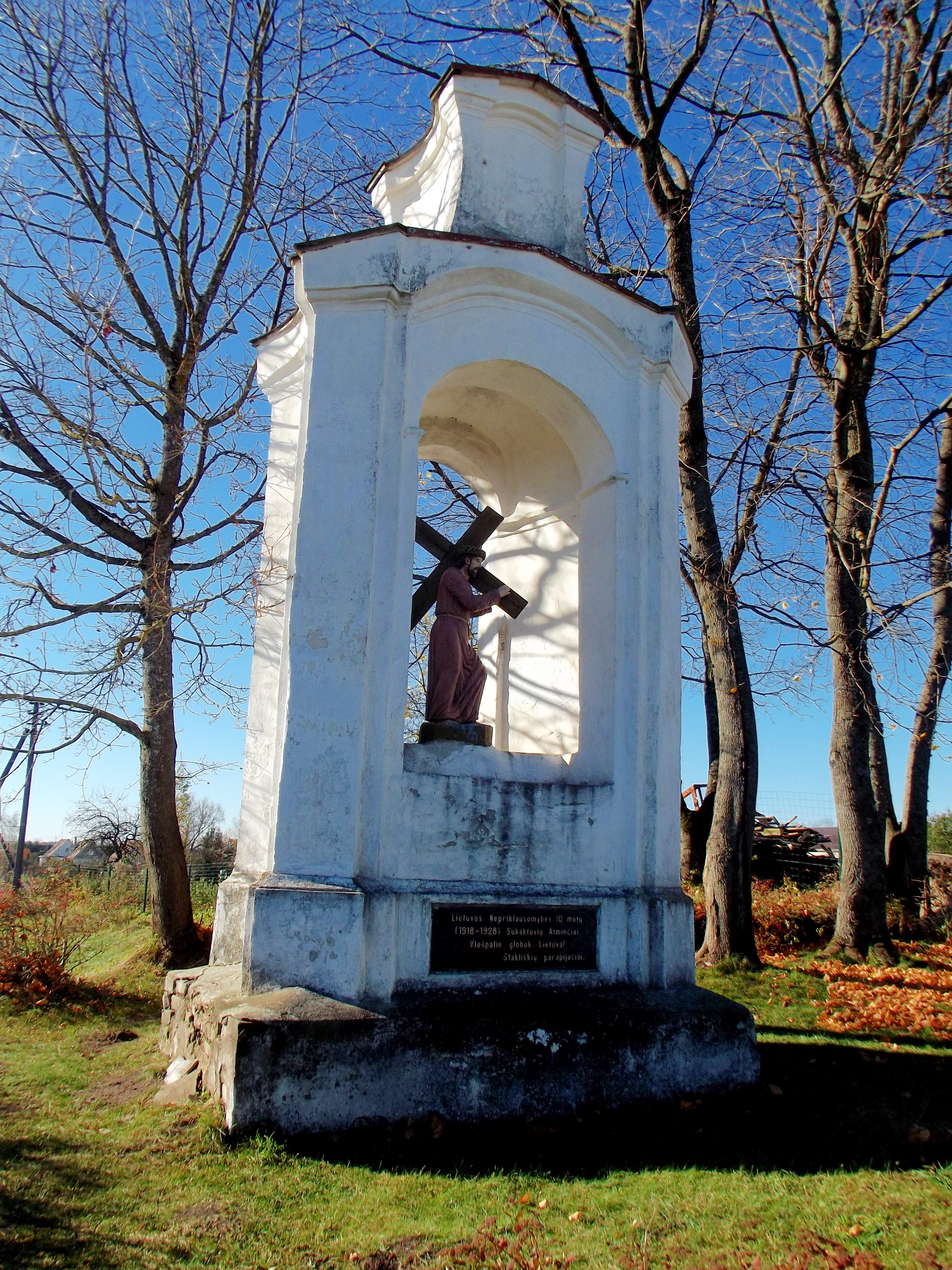 Independence monument, Stakliškės, Prienai district, Lithuania